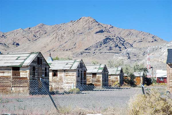 Abandoned World War II-era housing at the former Wendover Army Air Field, Utah. View to north.